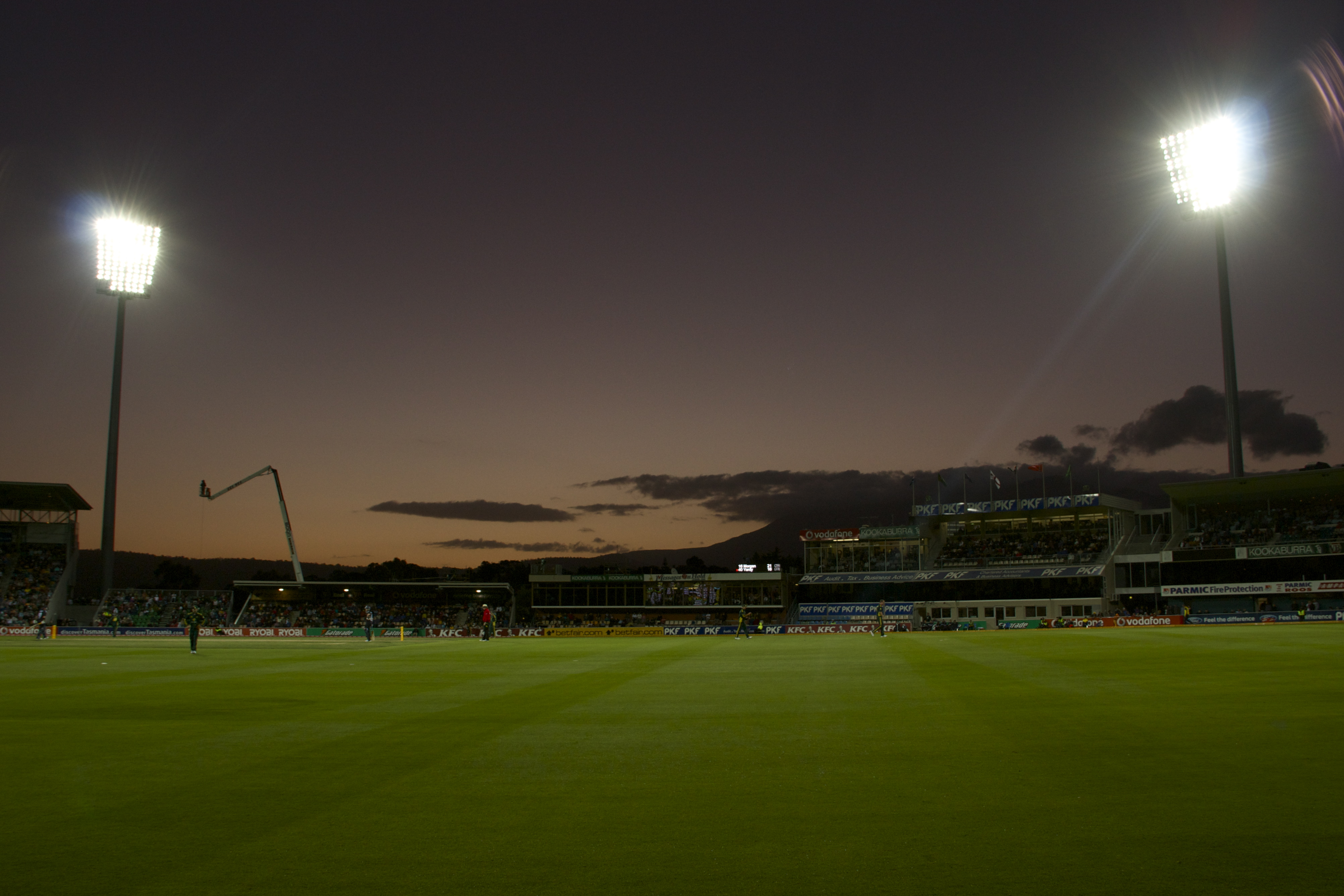 One-day Cricket: Australia vs England, Bellerive Oval, January 2011